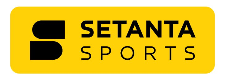 Setanta Sports Australia & Asia Logo